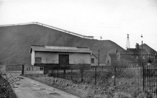 Black Bull Station (remains). Near to Brindley Ford, Stoke-on-Trent, Great Britain. View westward, across the Biddulph Valley line (Stoke-on-Trent - Ford Green (left)- North Rode (right)). Station and line closed to passengers 11/7/27, but station not closed to goods until 6/1/64 and mineral trains ran over the line until 24/1/76. Behind are the Old Tips of Victoria Colliery, which closed in 8/82.